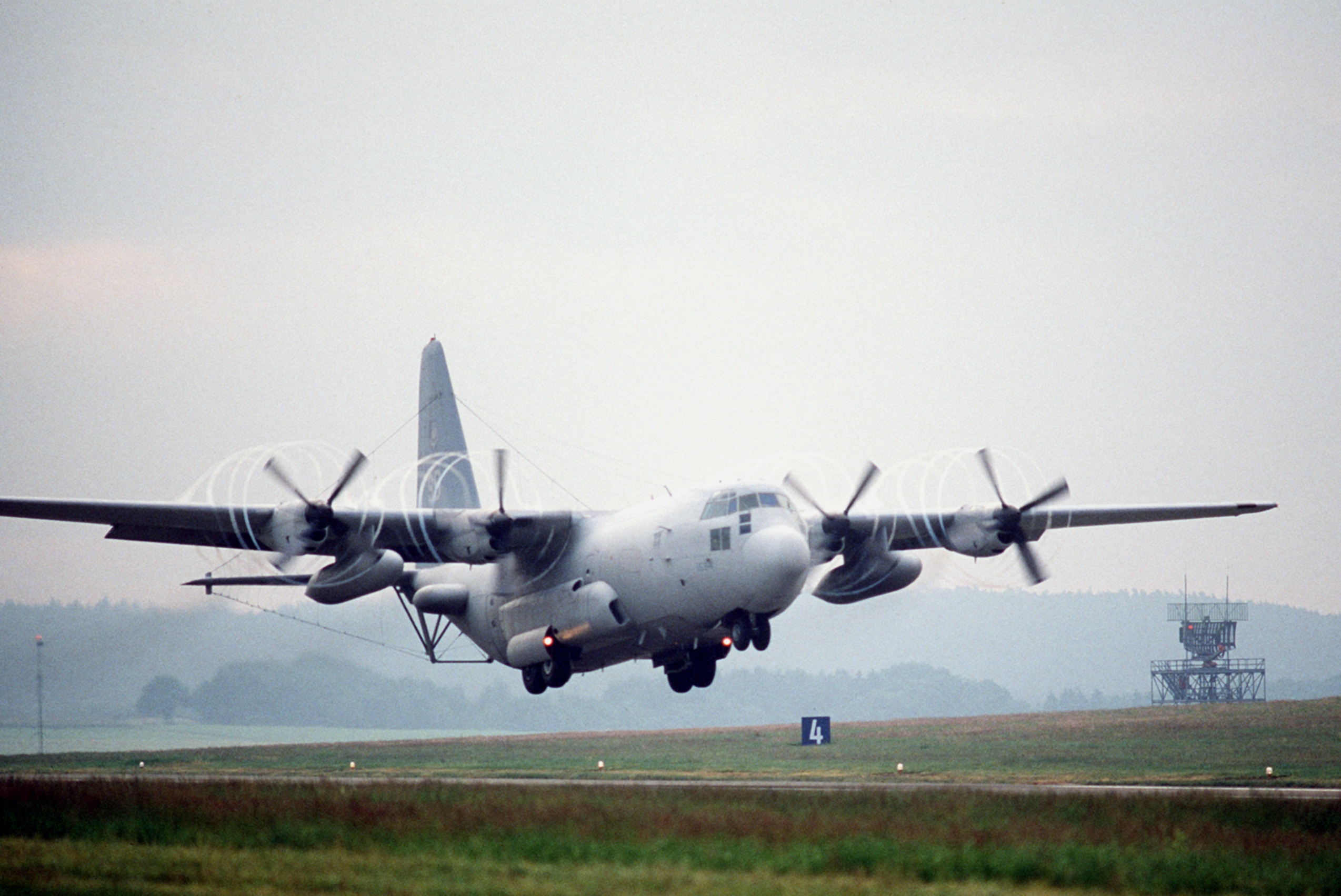 A U.S. Air Force Lockheed EC-130H Hercules "Compass Call" communications jamming aircraft of the 66th Electronic Combat Wing comes in for a landing at Sembach Air Base, Germany, during exercise "Central Enterprise '89".